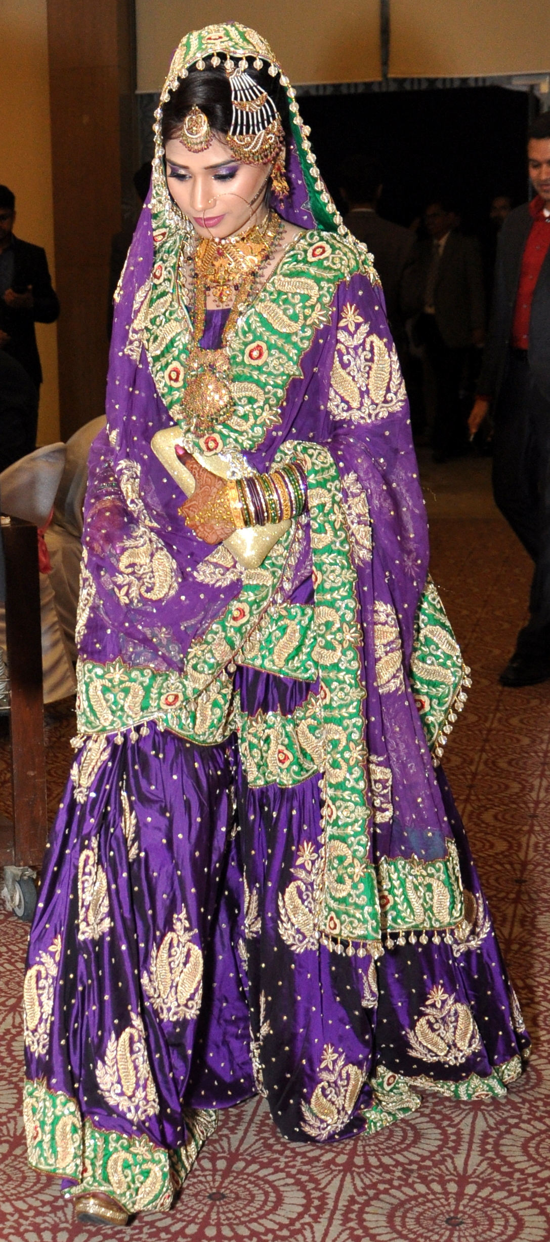 Bridal gharara made in silk and embroidered in zardozi all over